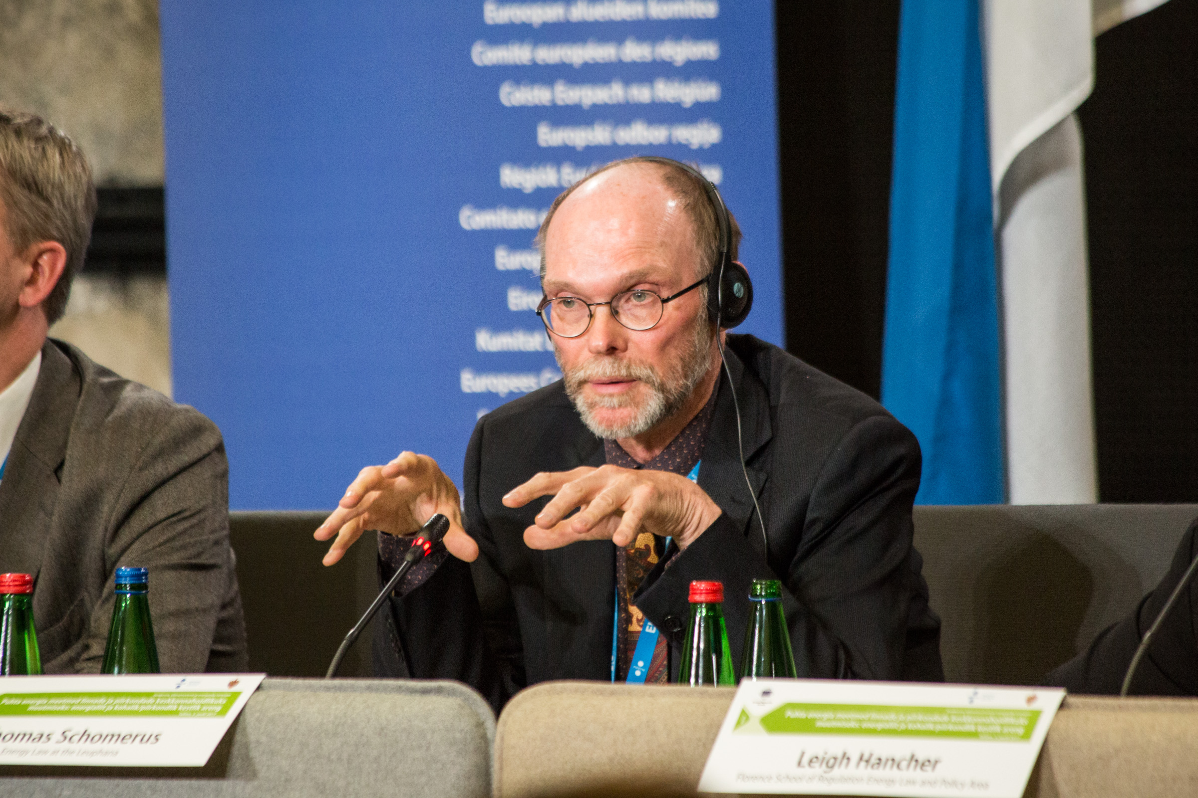 Tallinn Creative Hub